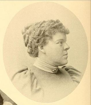 Ada Gorman